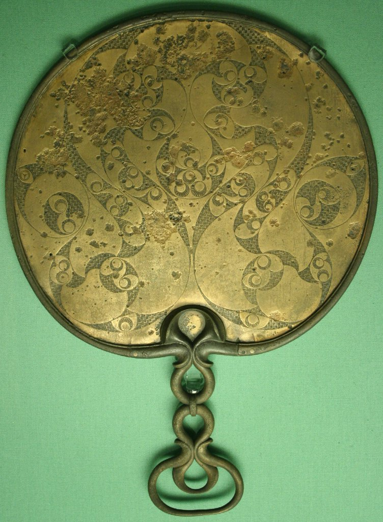 The highly decorated reverse side of a Celtic bronze mirror (obverse is the reflecting surface with green patination) from Desborough, Northamptonshire, England, showing the development of the spiral and trumpet decorative theme of the Early Celtic La Tène style in Britain. The complex symmetrical clover-leaf pattern, outlined in the form of a lyre with flanking coils, was possibly laid out using a pair of compasses or string. Parts of the decoration are engraved, using a graver, with a basket-weave pattern and hatched texturing to make the pattern stand out. The mirror is made from three pieces - a cast handle, the main mirror plate and a tubular binding strip around the edge.with a basket-weave pattern and hatched texturing. Curator's comments: The plate was highly polished on one side to produce a reflective surface. A mirror would have been a powerful object in a world where reflections could only be glimpsed in water. A person using a mirror would control how they looked using the mirror in combination with tweezers or shears. Decorated mirrors of this type are uniquely British, very few are found on the continent. The majority are from graves dating between 100BC and AD 100 (Joy, J, Iron Age Mirrors: A biographical approach, Oxford, British Archeological Reports, 2010).